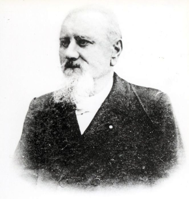 Portrait of the Occitan writer Pau Paget